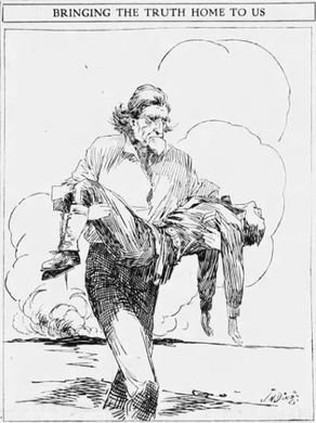 This cartoon by J. N. "Ding" Darling ran in the Nov. 8, 1917, issue of the Des Moines Register. An engraving of the cartoon is featured on the state monument to Merle Hay in Glidden.